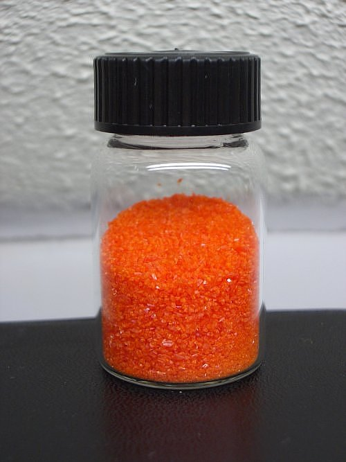 Crystals of potassium dichromate